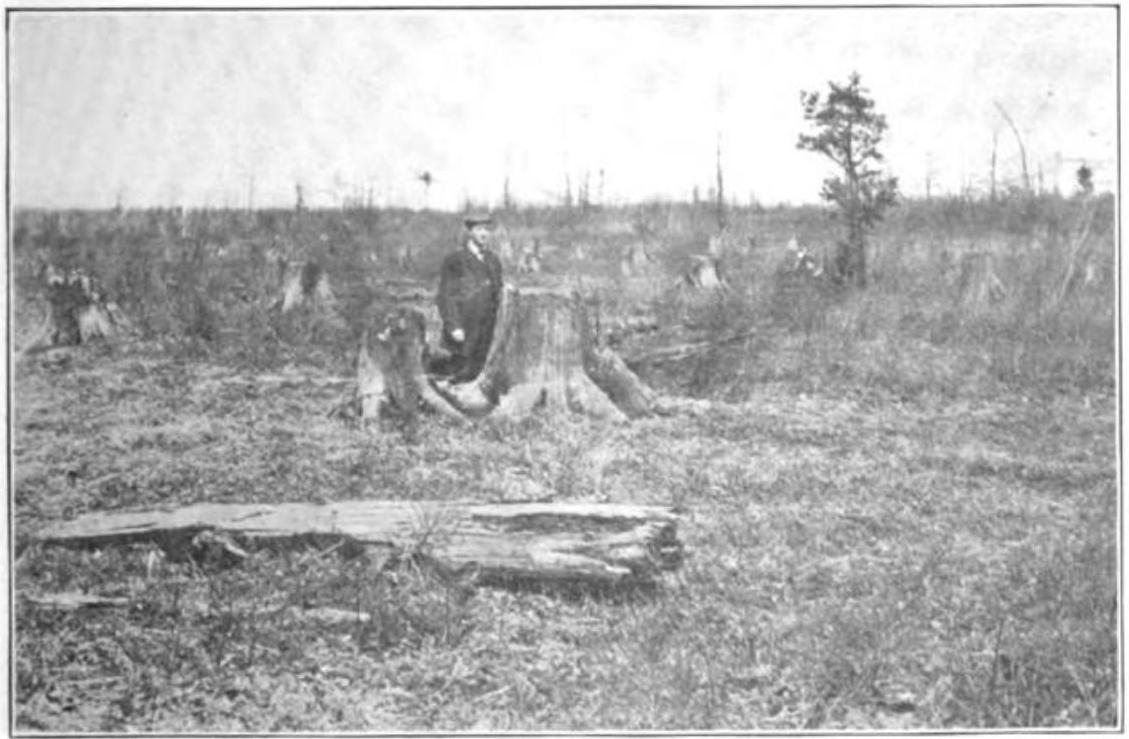 Clear cut wasteland known as the "Pennsylvania Desert" in Pennsylvania, USA